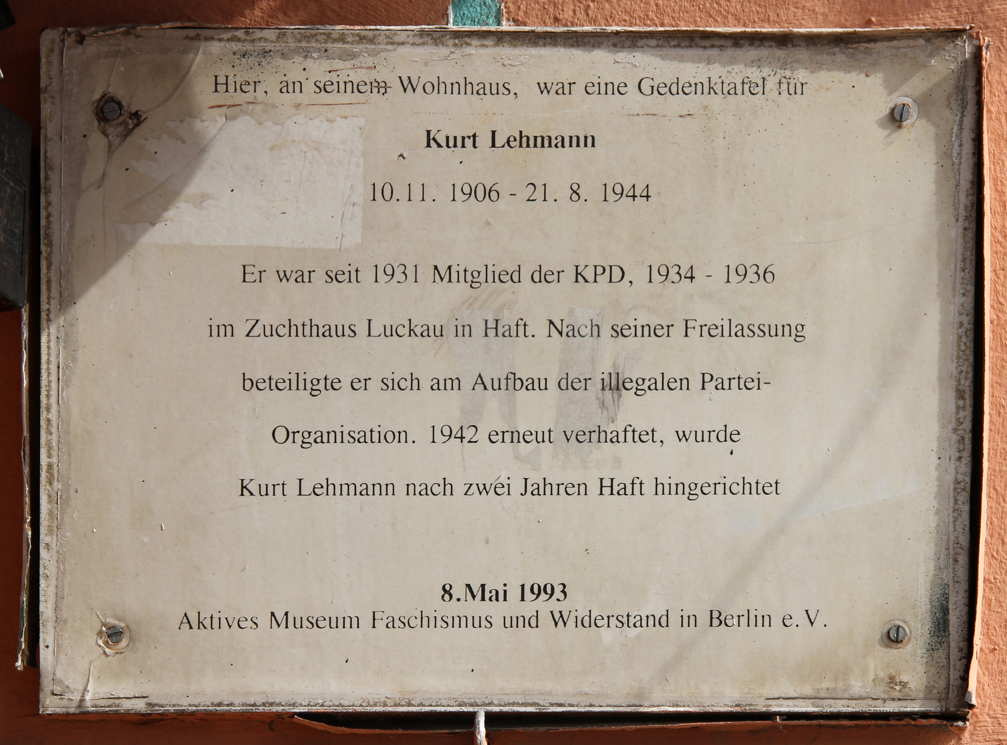 Memorial plaque, Kurt Lehmann, Danziger Straße 29, Berlin-Prenzlauer Berg, Germany